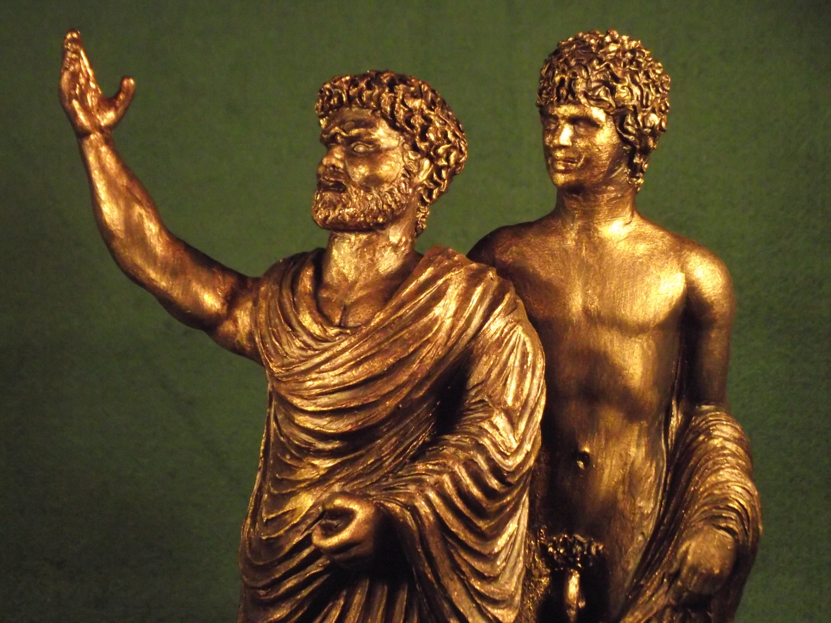 Hadrian and Antinous. Composite constructed sculpture of historical figure(s) reputed to have had a same sex relationships. Made of various materials & found objects with thin veneer film of bronze patina-ted paint giving appearance of solid bronze. A Metaphor of the appearance of solidity of LGBT rights & equality in law in the UK. Created by artist Malcolm Lidbury for 2016 LGBT History & Art Project Cornwall UK.